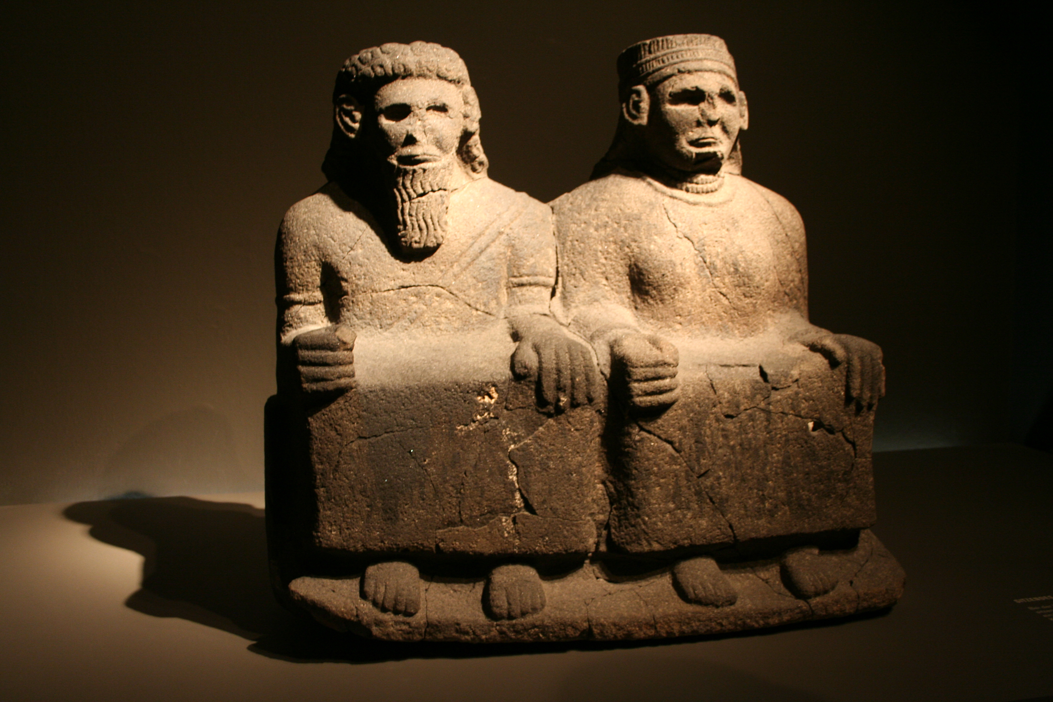 Exhibition "Die geretteten Götter aus dem Palast vom Tell Halaf" (The rescued gods from the palace of Tell Halaf), Pergamon Museum, Berlin